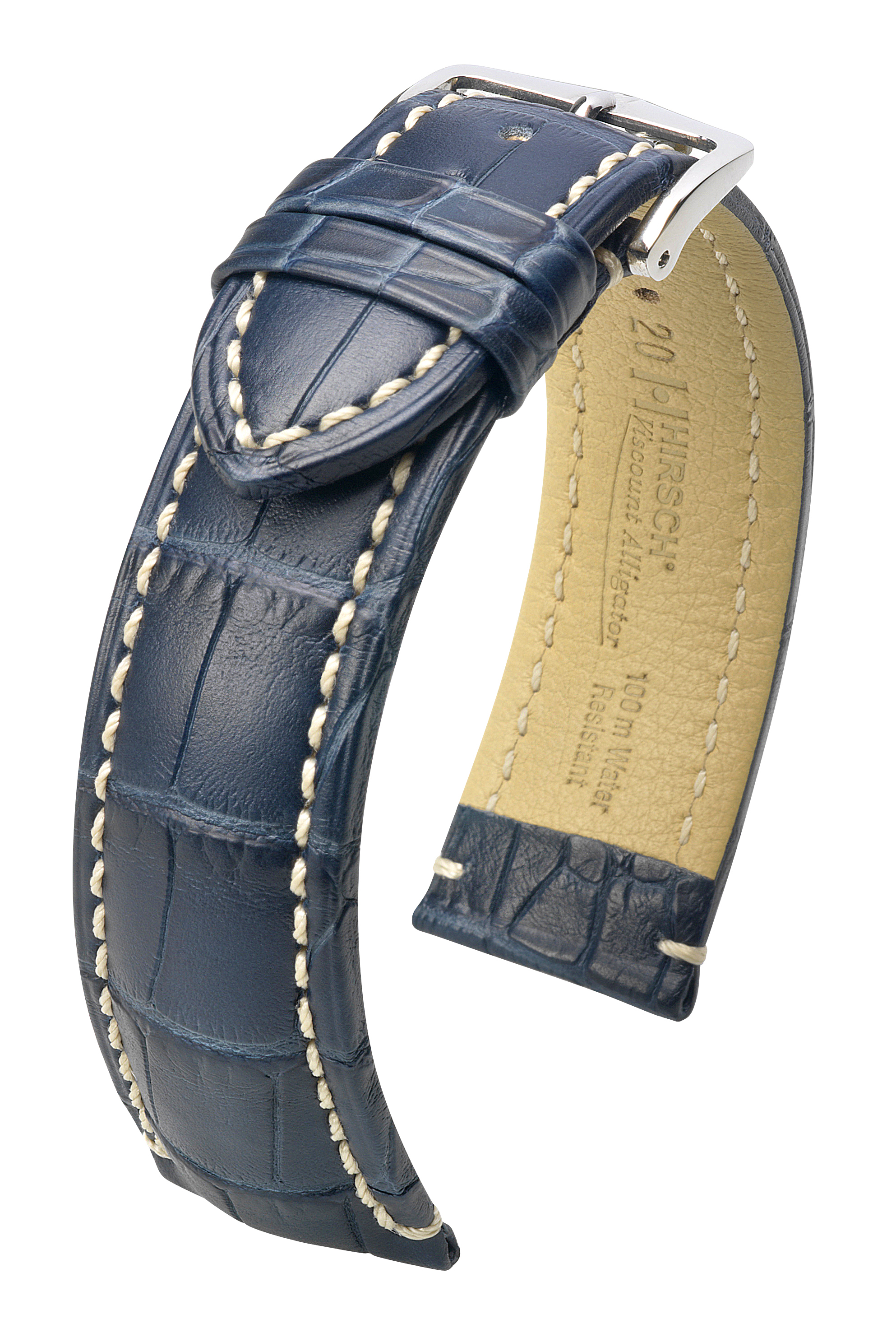 Watch strap (Viscount blue)